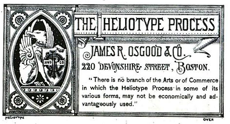 Ad for James R. Osgood & Co.; "The Heliotype Process"; Devonshire St., Boston